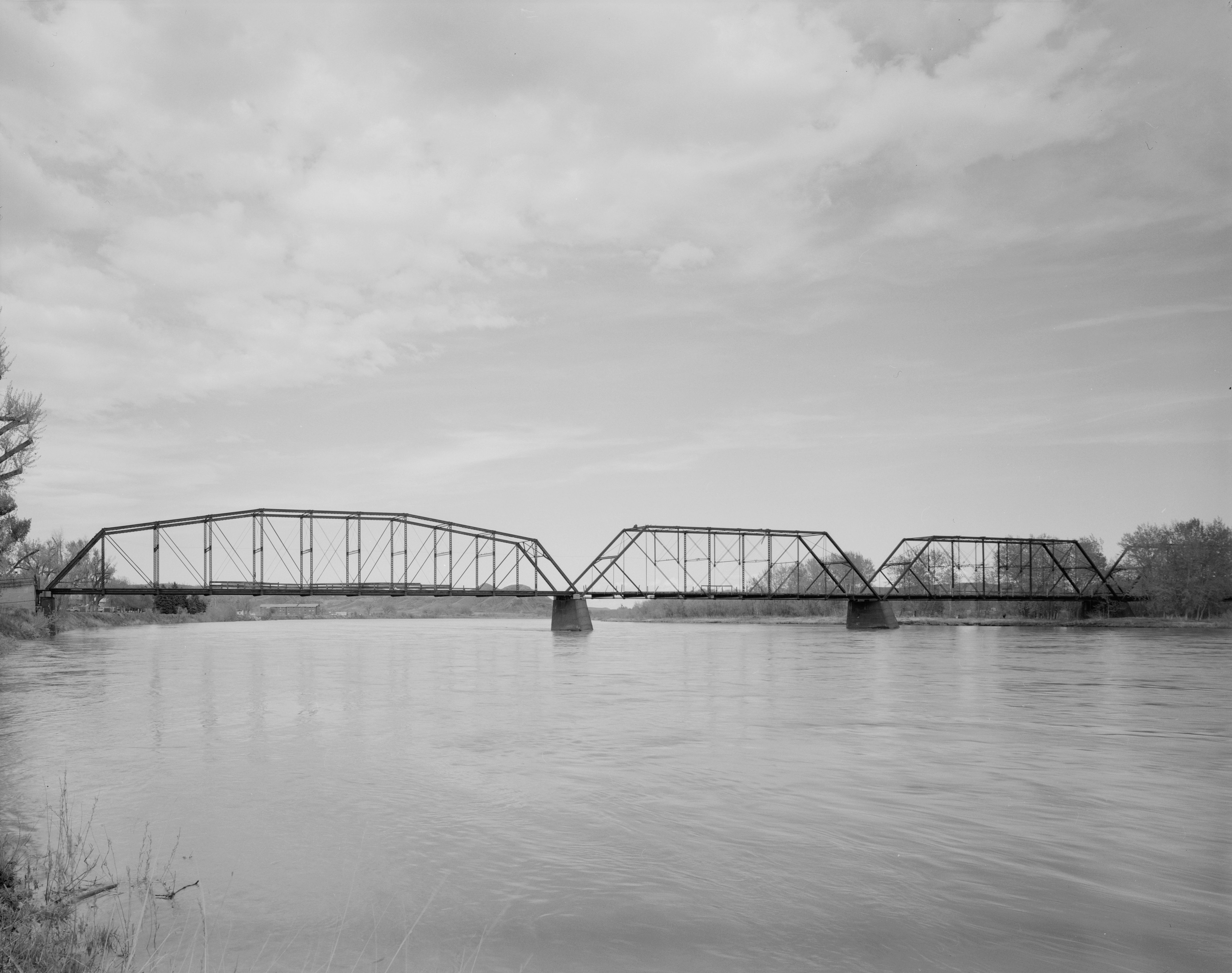 View of the downstream side of the Fort Benton Bridge across the Missouri River at Fort Benton, Montana, United States. Built in 1888, the bridge is listed on the National Register of Historic Places.